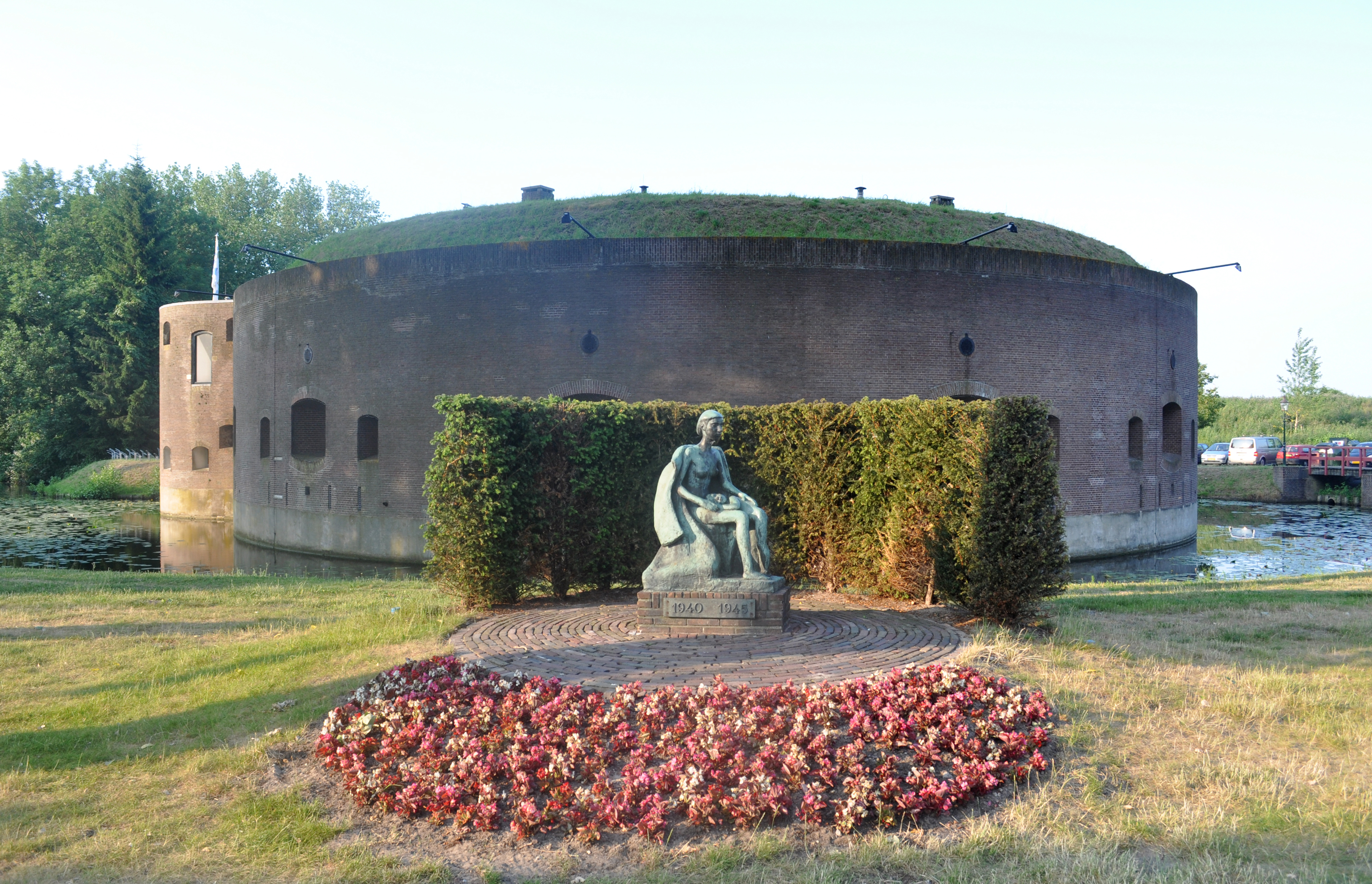 War memorial "weduwe met kind" (Widow with child) by Lidi Buma in 1956. Until 2008 it was at the Prinses Irenelaan but after 2008 it is situated at it's current place at the Ossenmarkt in front of the Torenfort in Weesp.